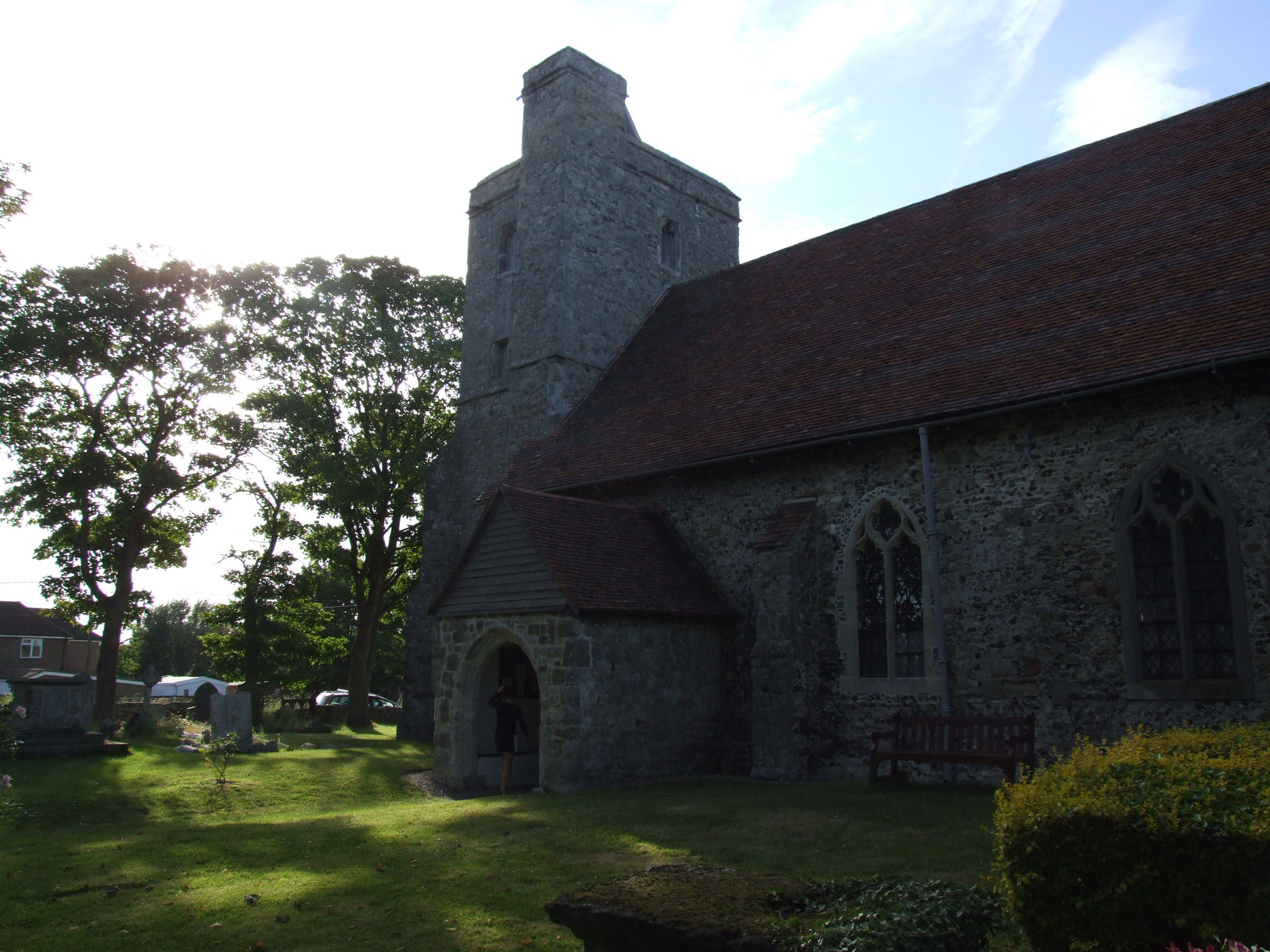 West tower and south porch of St James' parish church, Cooling, Kent, seen from the southeast